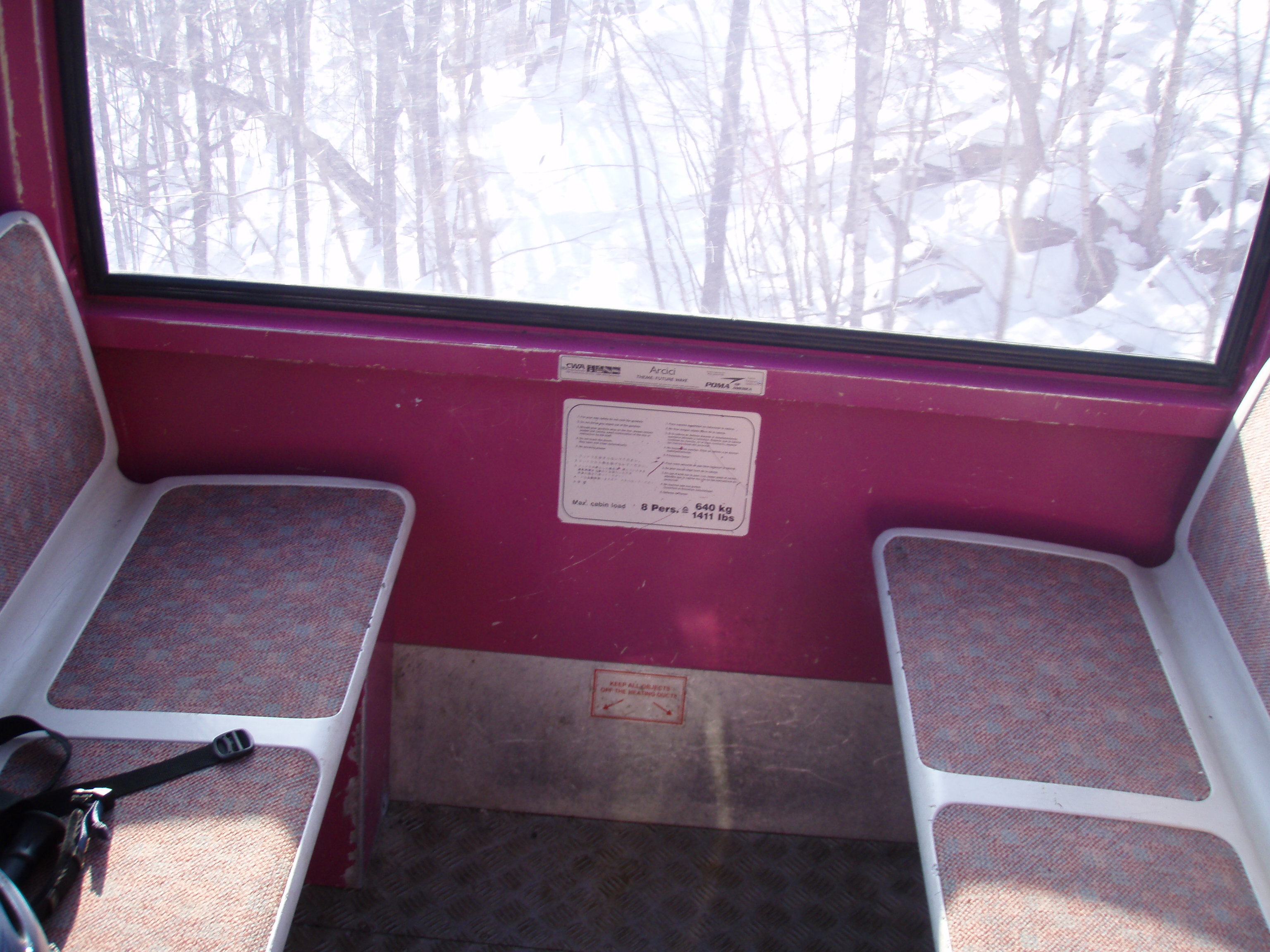 Interior of Skyeship Gondola at Killington